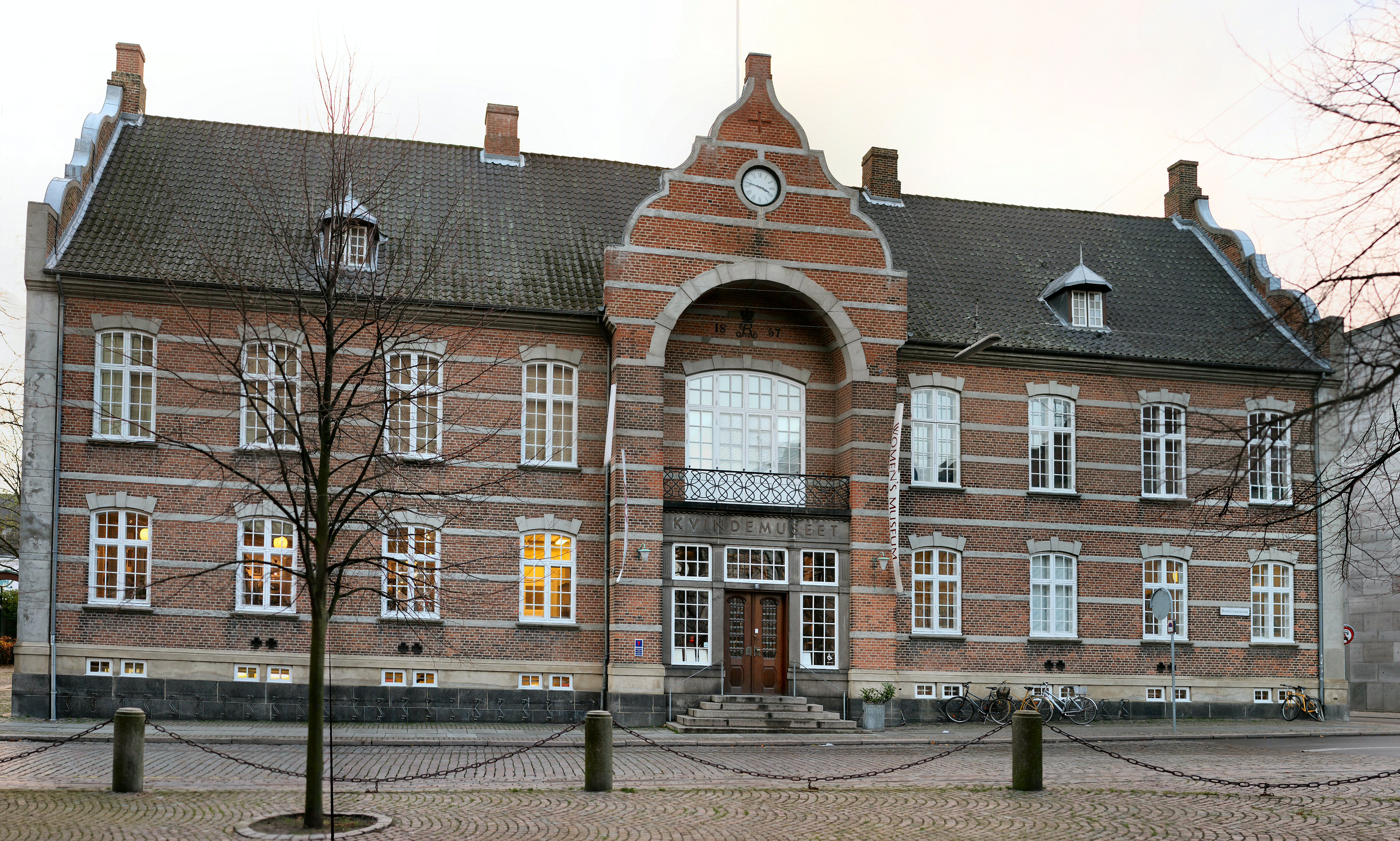 Womens museum in Århus, Denmark